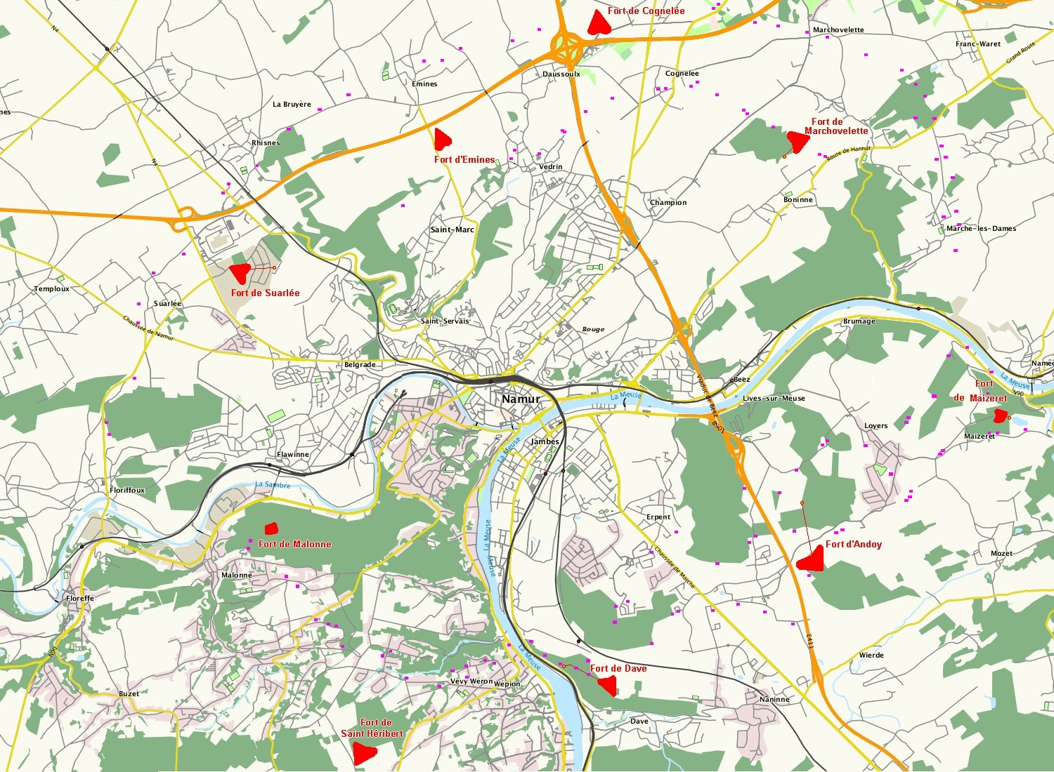 A global map of the 9 forts surrounding the city of Namur in Belgium. Those where build under the Design of Belgian army general Henri Alexis Brialmont in 1889-1892. Forts are represented in red. When an external air intake tower was added (around 1930), it's position is mentionned via a small red circle. Purple squares are infantery shelters (bunkers) in intervals between the forts, as built between WW I and II